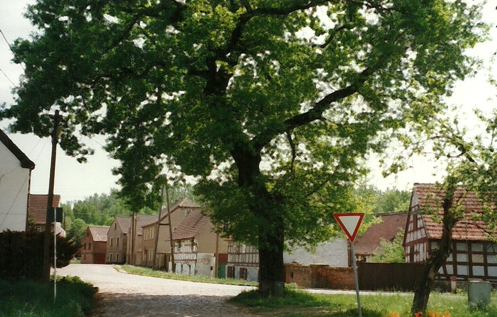 The village of Grunau in the former Großgrimma municipality in the south of Saxony-Anhalt in 1998, demolished later for the development of the Profen opencast mine.